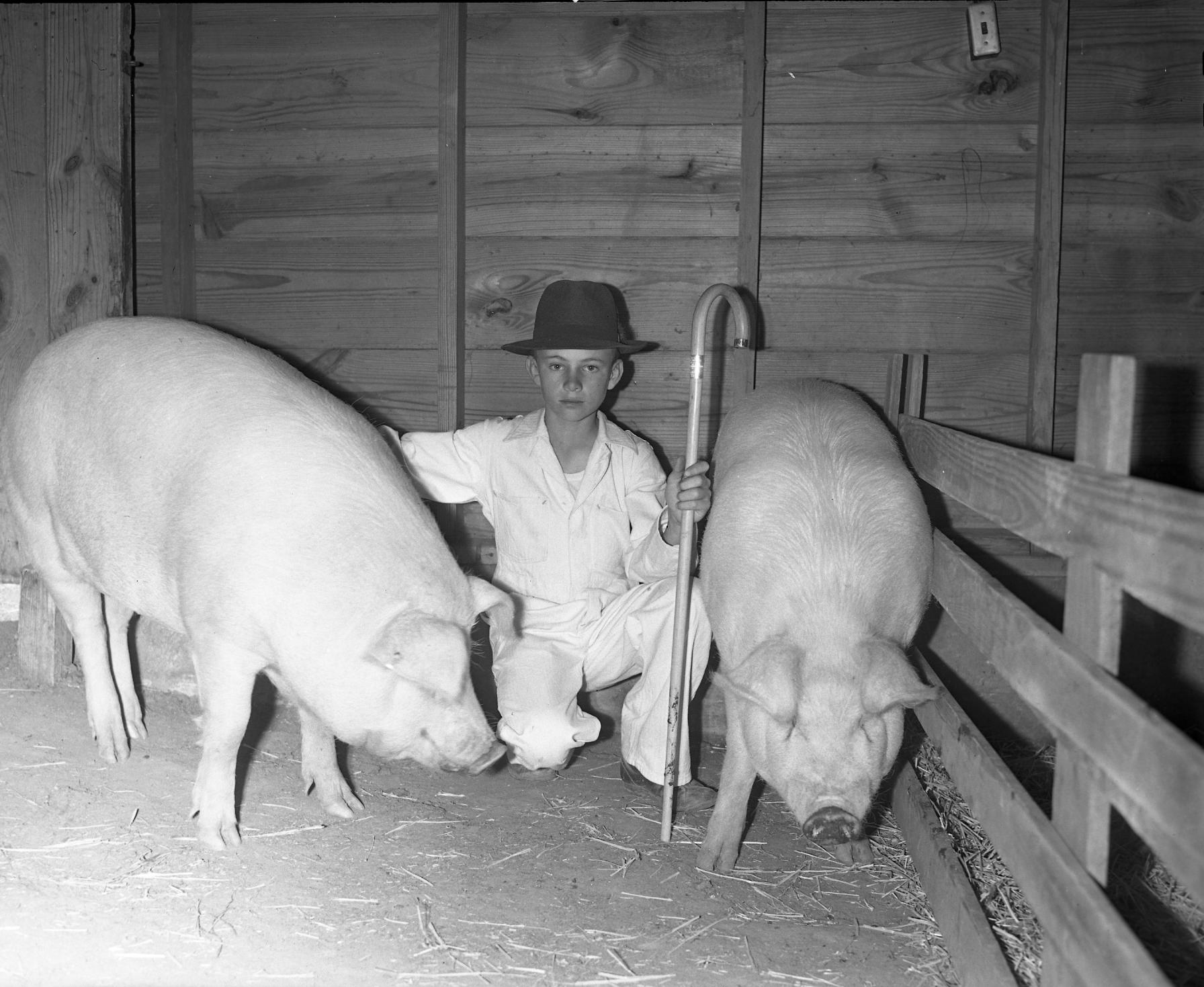 A boy kneeling between two chester white pigs at a livestock show in Floyd County, Texas circa 1940.